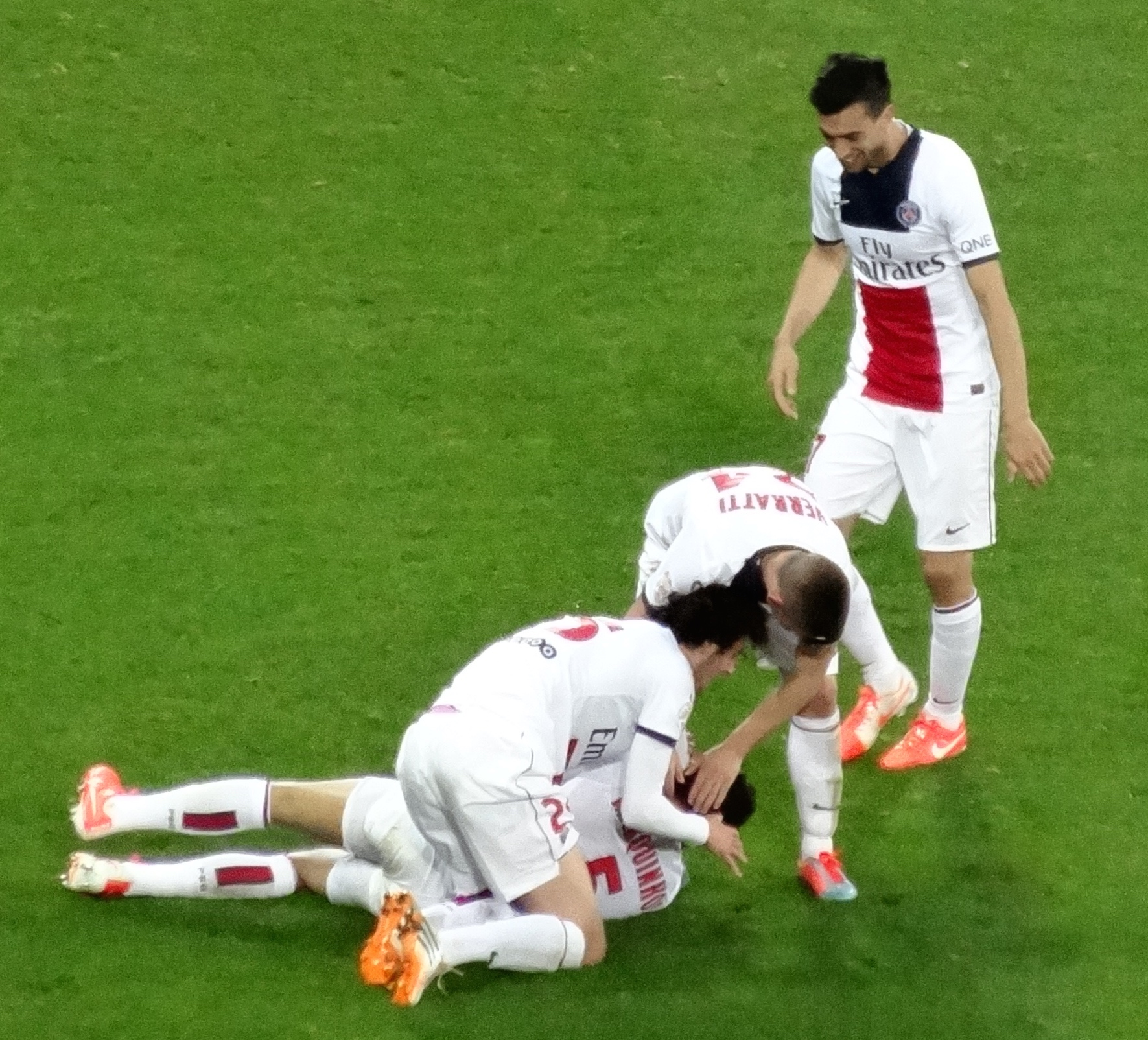 Goal of Marquinhos versus Lille